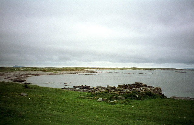 Port Ruadh, on the Monach Isle of Ceann Ear, Outer Hebrides, Scotland Bothy ruin once used by lobster fishermen at Port Ruadh, a bay on the east side of Ceann Ear, which was the main landing point when the Monachs were inhabited.